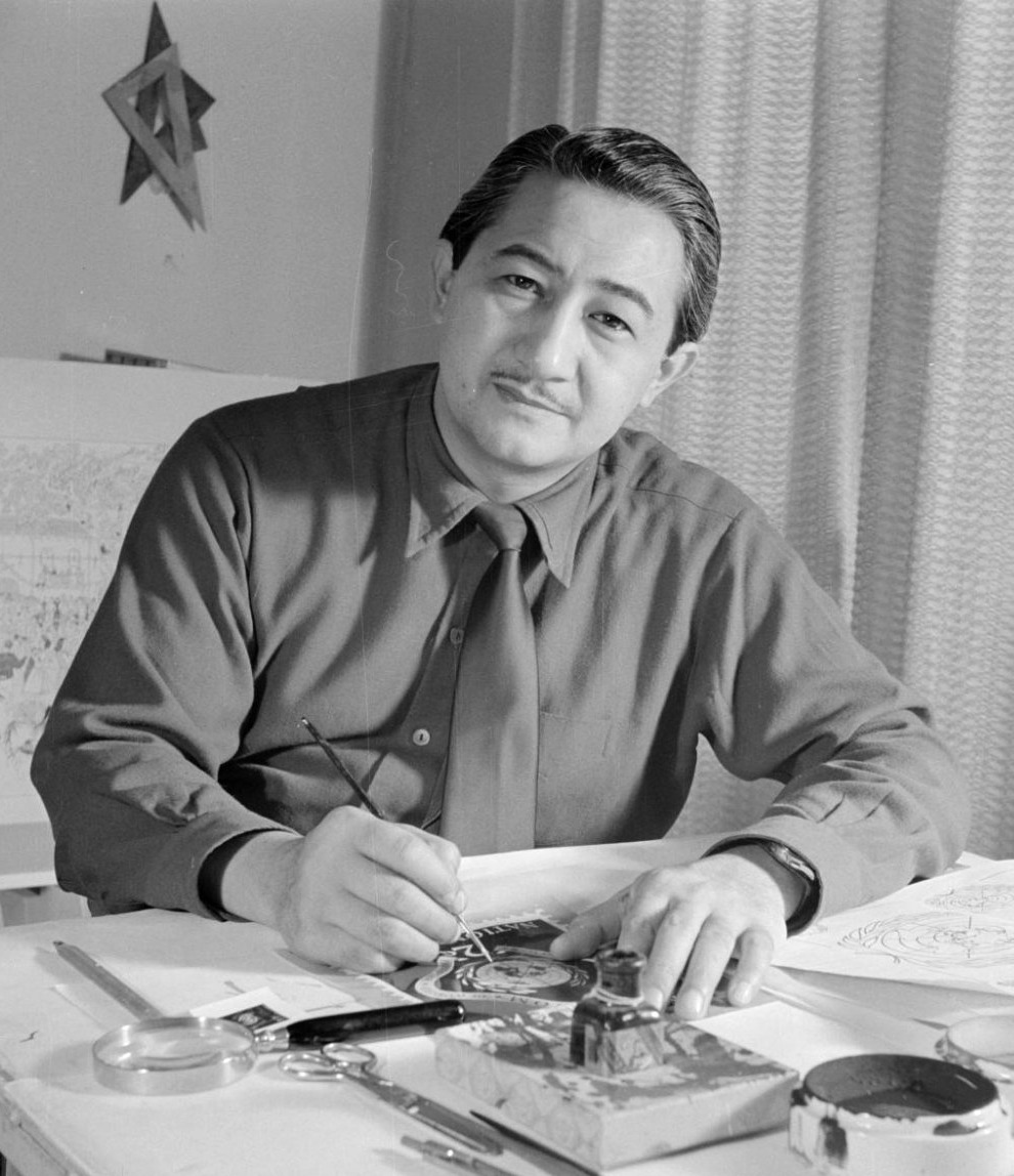 Eppo Doeve aan zijn tekentafel bezig met het ontwerp van de 1$ postzegel van de Verenigde Naties